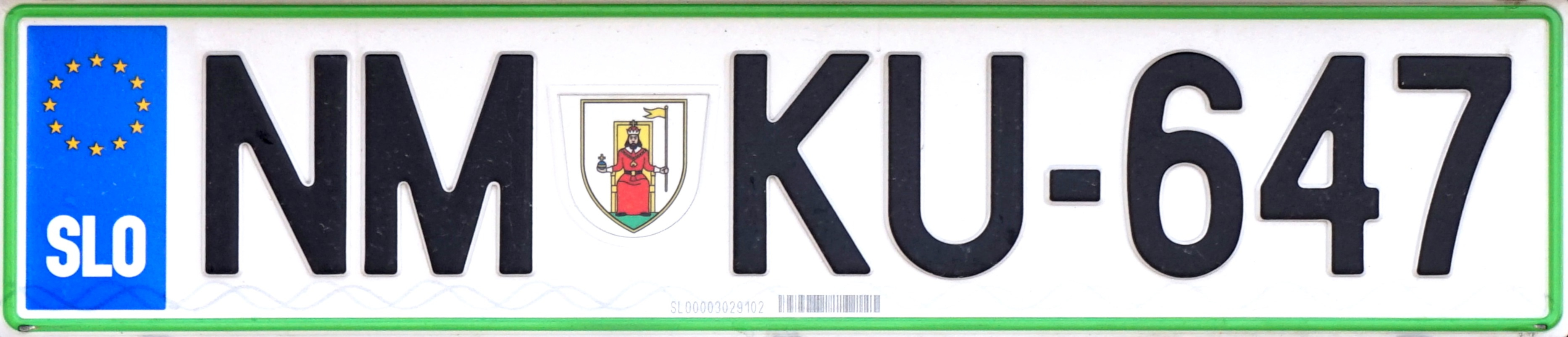 Slovenian license plate with the sticker of Novo mesto administrative unit